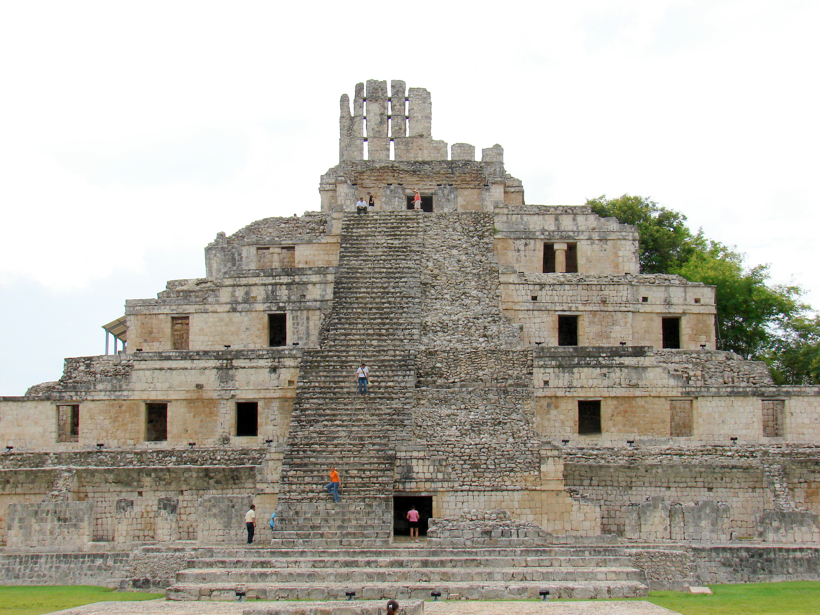 Pyramid of Five Floor in Arqueological Site of Edzná, in State of Campeche